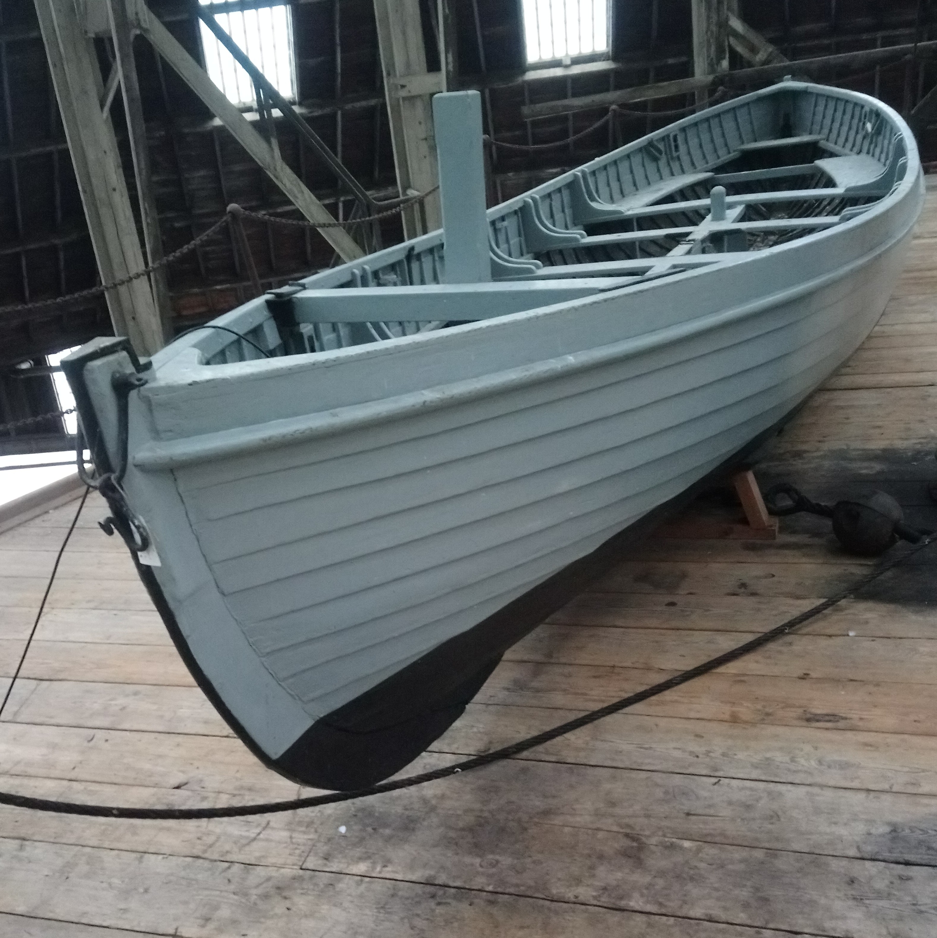 ThisMontagu whaler is displayed on the mezzanine floor of No. 3 Slip at Chatham Historic Dockyard in 2020. A 27' naval whaler was an open clinker built boat that could perform under sail or by rowing. A Montagu whaler had a drop keel ans was wider in the beam thus more stable. They were in service between 1910 and 1970 with the Royal Navy and commonwealth navies.